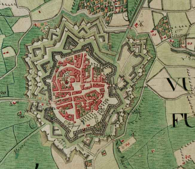 Veurne, Belgium_;_ detail from Ferraris_Map